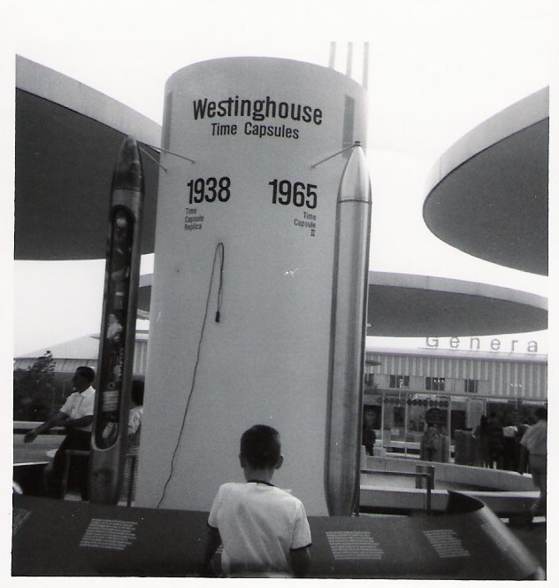 1964 New York World's Fair